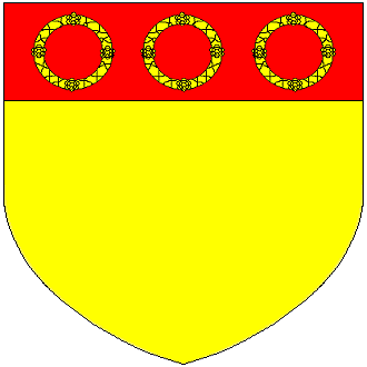 Arms of Morrison of Cashiobury, Watford, Hertfordshire (Morrison Baronets) and of Morrison of Yeo Vale in the parish of Alwington and of Hartland Abbey, Devon: Or, on a chief gules three chaplets of the first. (As visible on Morrison monuments in St Mary's Church, Watford and in the Yeo Vale Chapel of Alwington Church, Devon.)